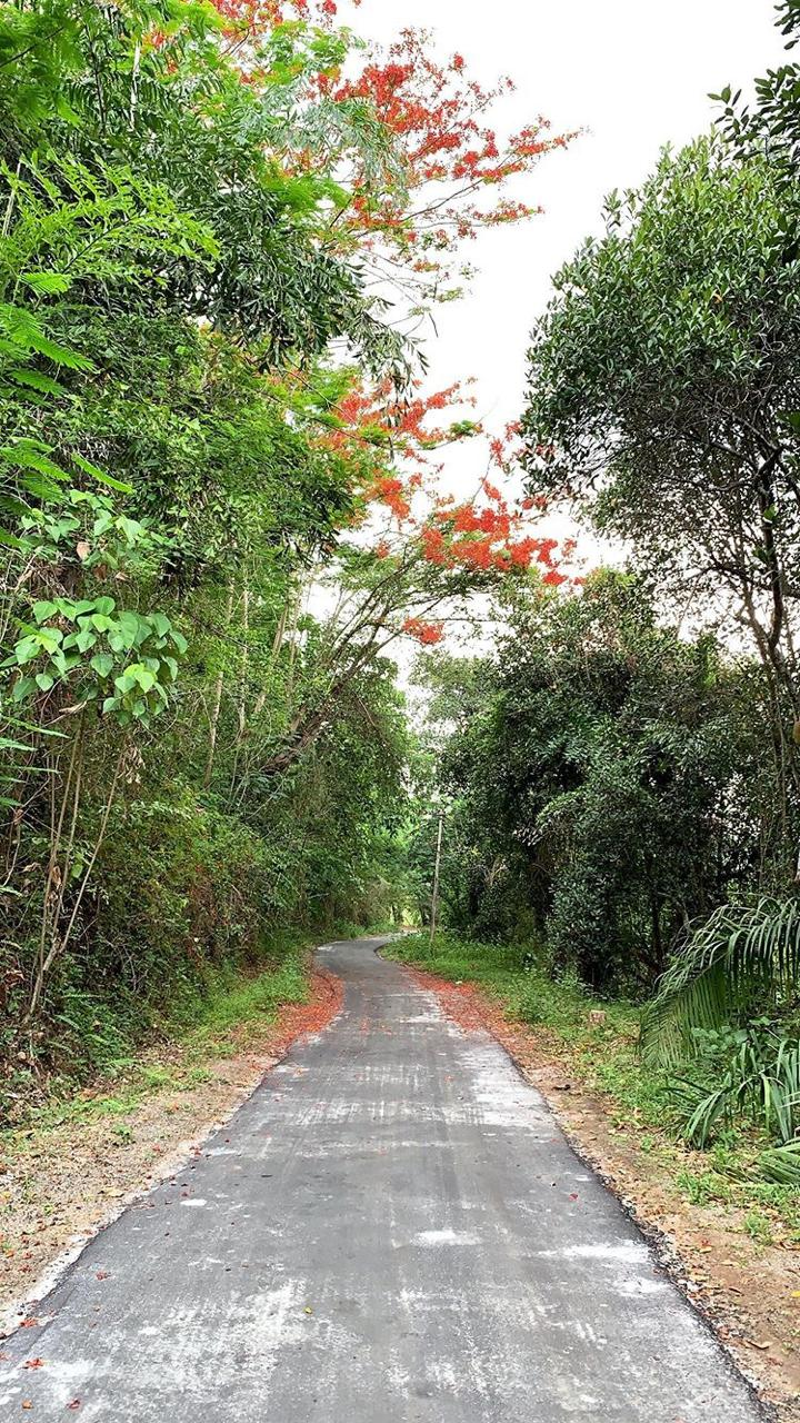 CPCRI is a central government research institute. One of the the center is located in Vitla